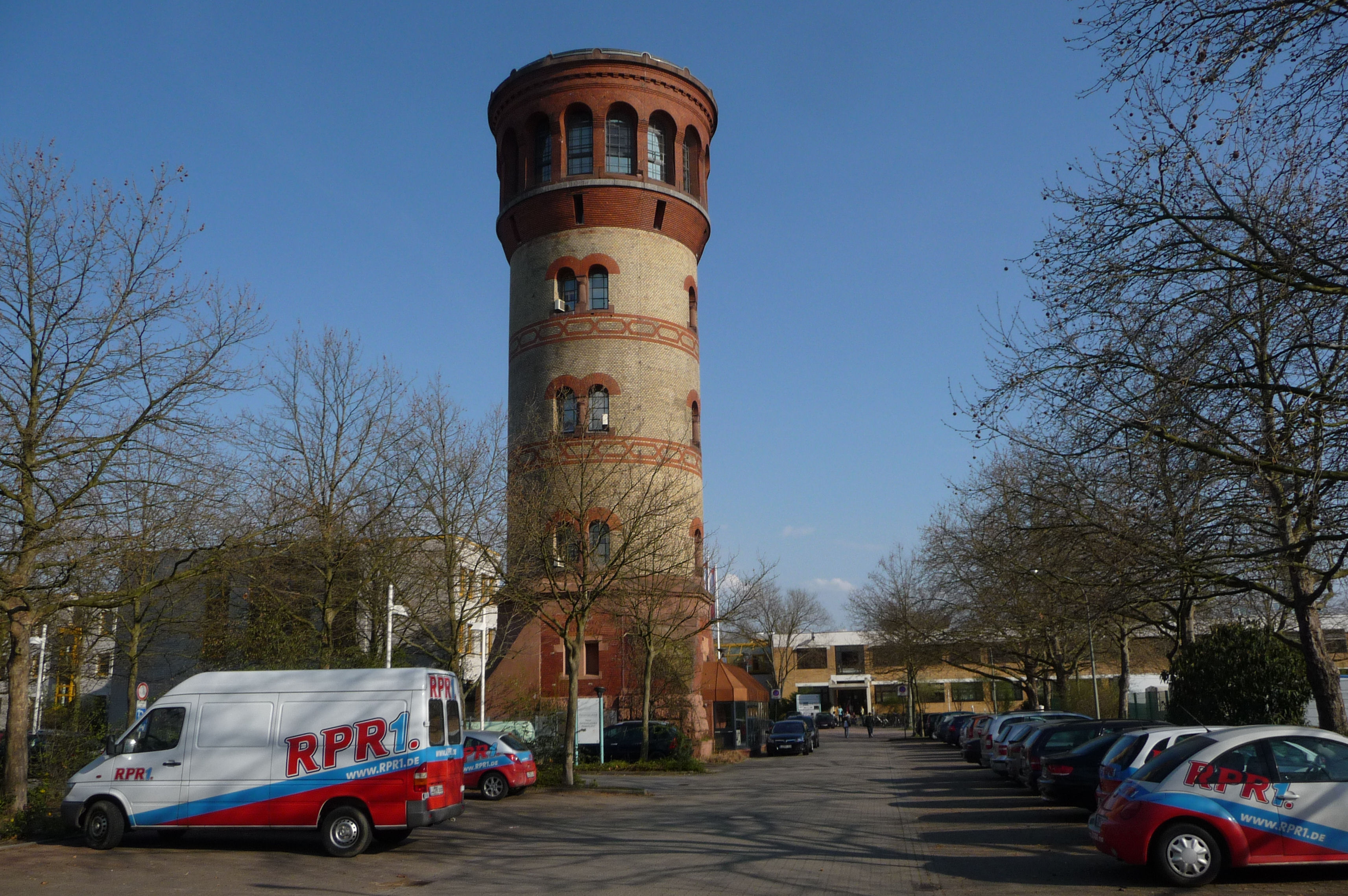 water tower in Ludwigshafen, Germany